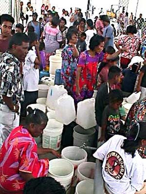 Ebeye, Marshall Islands, April 3, 1998 -- Hundreds of Ebeye residents wait at a distribution site where trucks fill a 70,000 gallon water-holding tank. Photo by Angel Santiago/FEMA News Photo